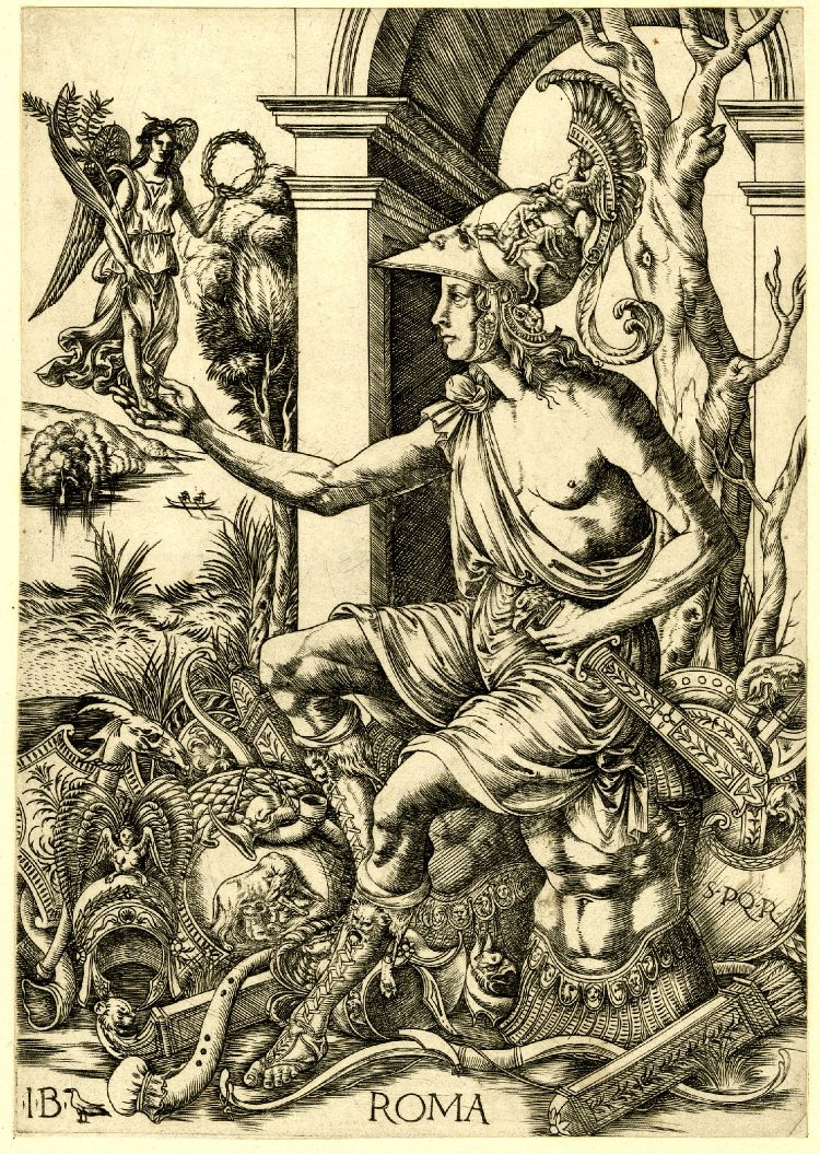 Giovanni Battista Palumba, print in the British Museum